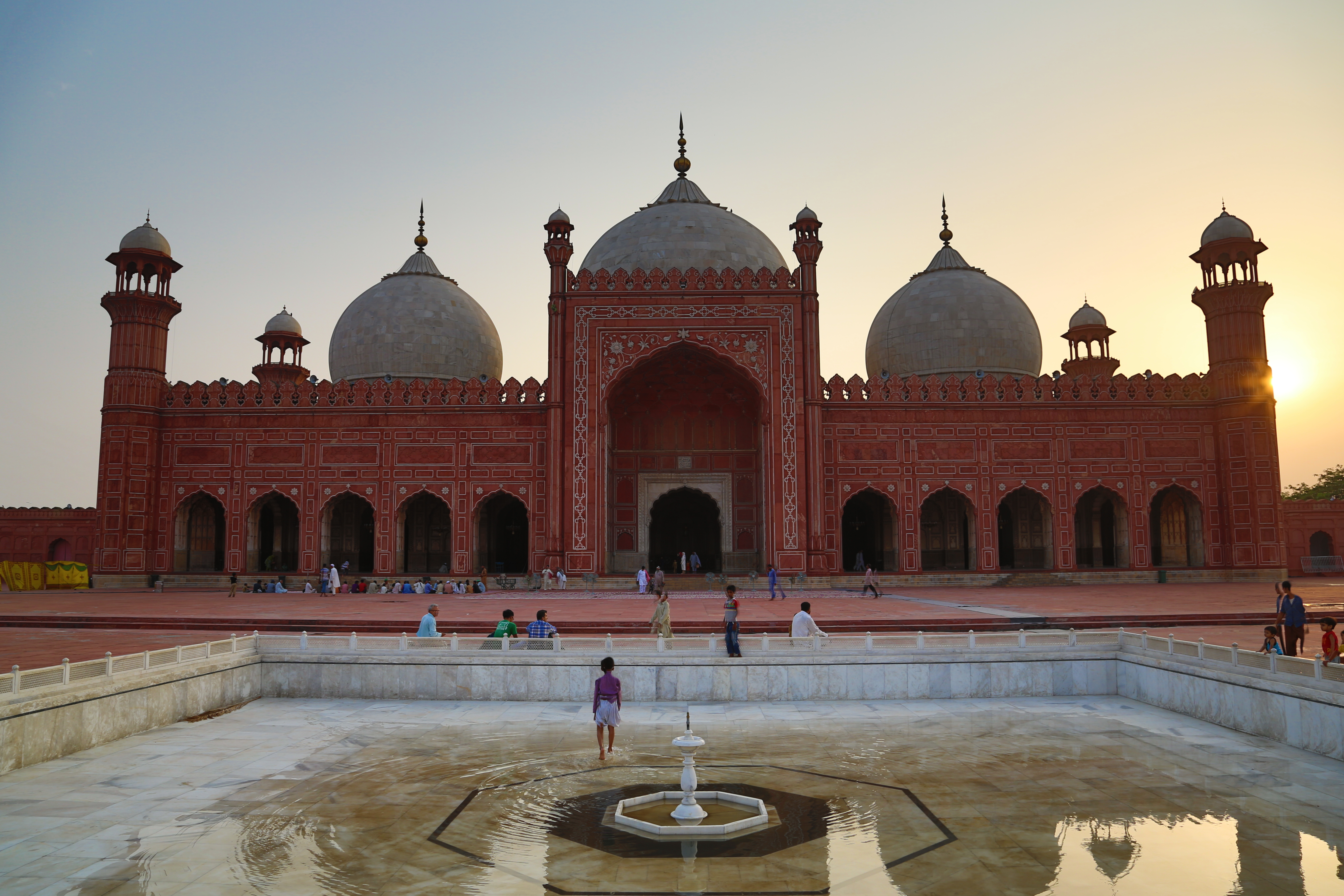 Badshahi Mosque (King’s Mosque) This is a photo of a monument in Pakistan identified as the PB-44